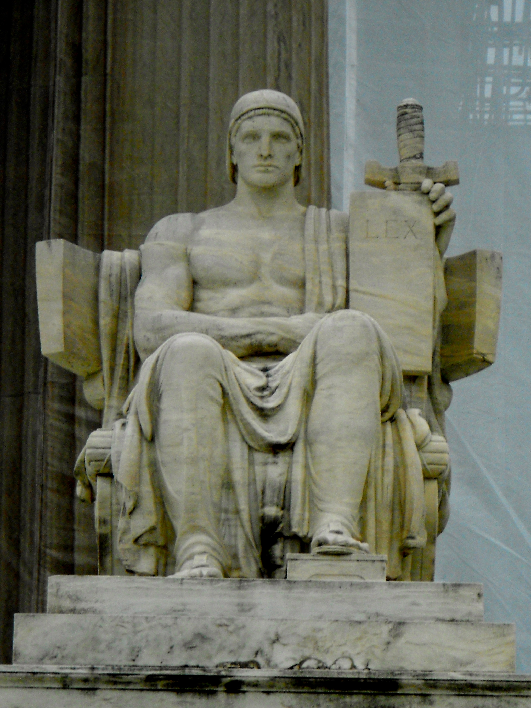 Sculpture at the front steps of the US Supreme Court Building (south side) "Authority of the Law"